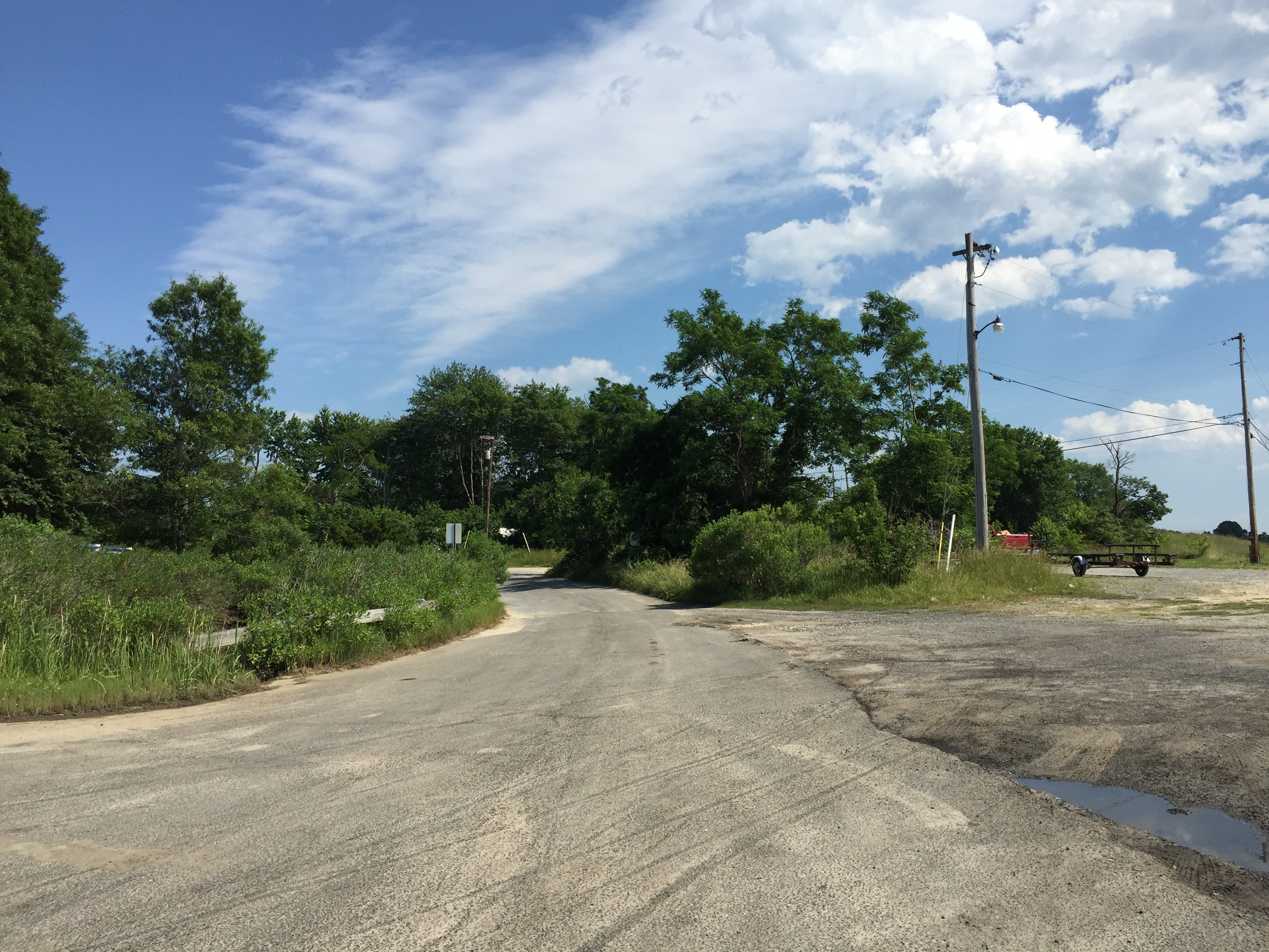 View east at the west end of Maryland State Route 752 (Hallowing Lane) in Burch, Calvert County, Maryland